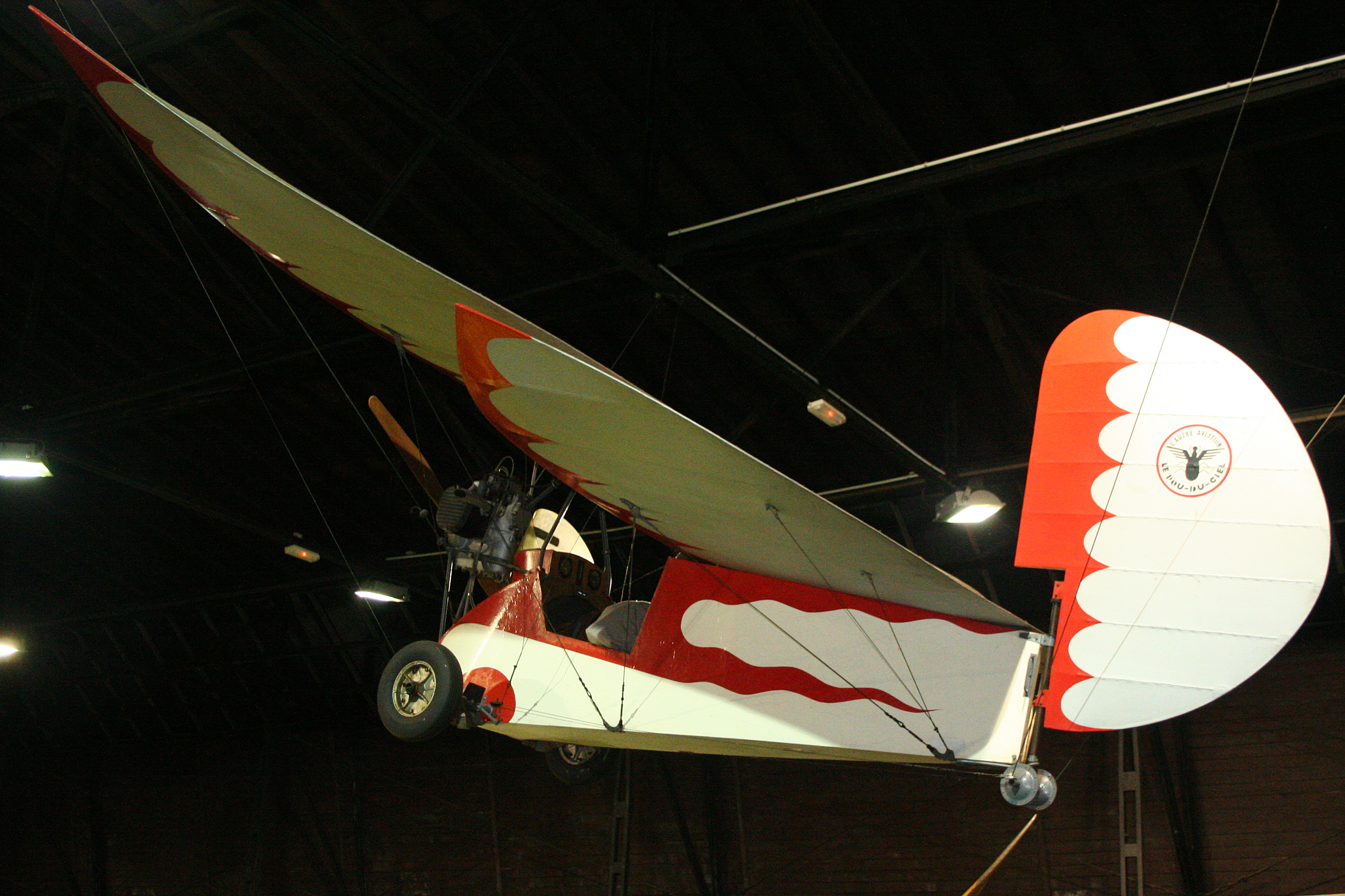 On display in the 1925-1938 hangar. Kbely Museum, Czech Republic. 07-10-2012